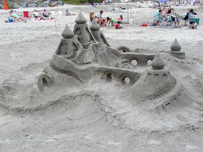 Sand Castle on the Beach